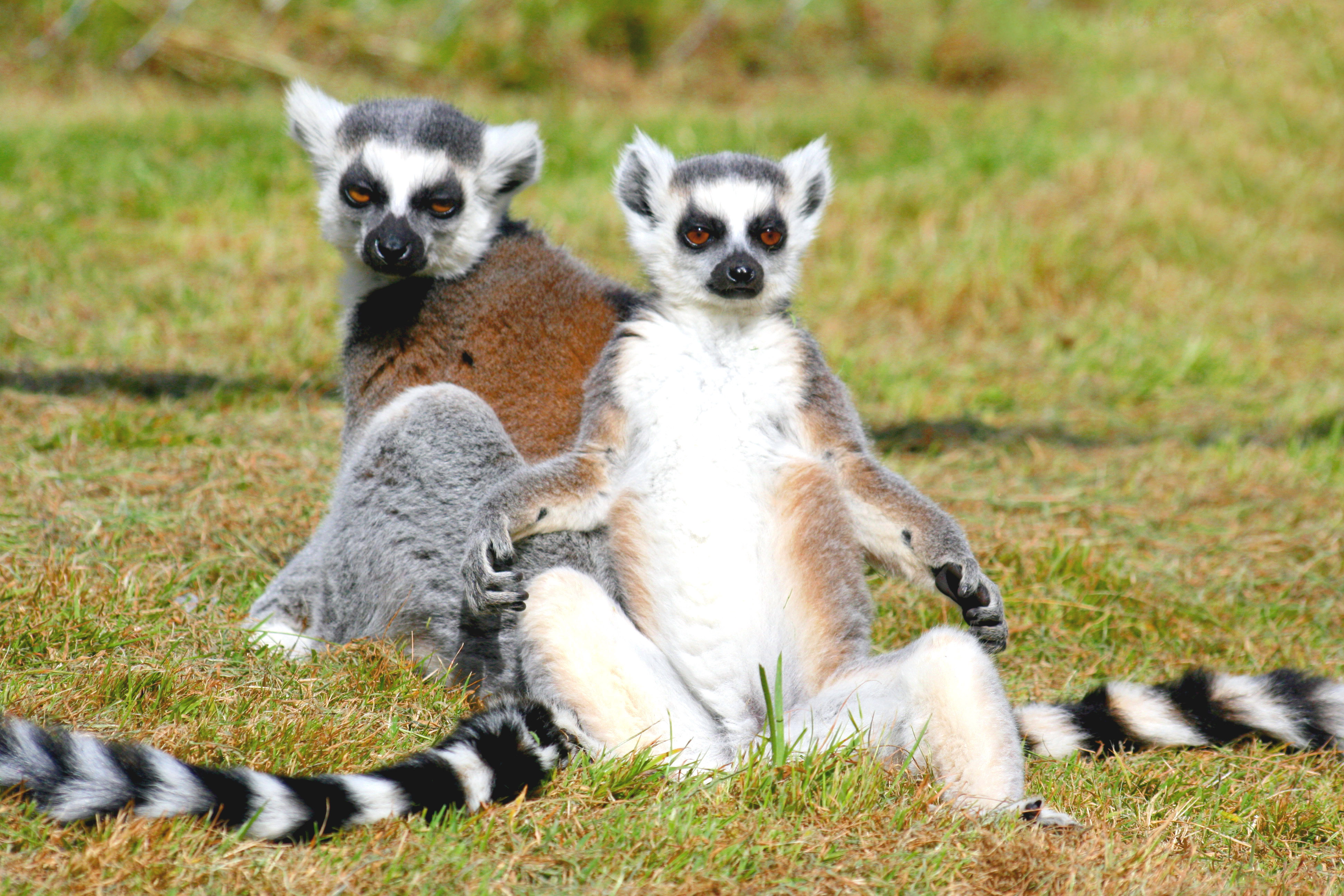 Ring-tailed lemurs - Wingham Wildlife Park, Kent, England